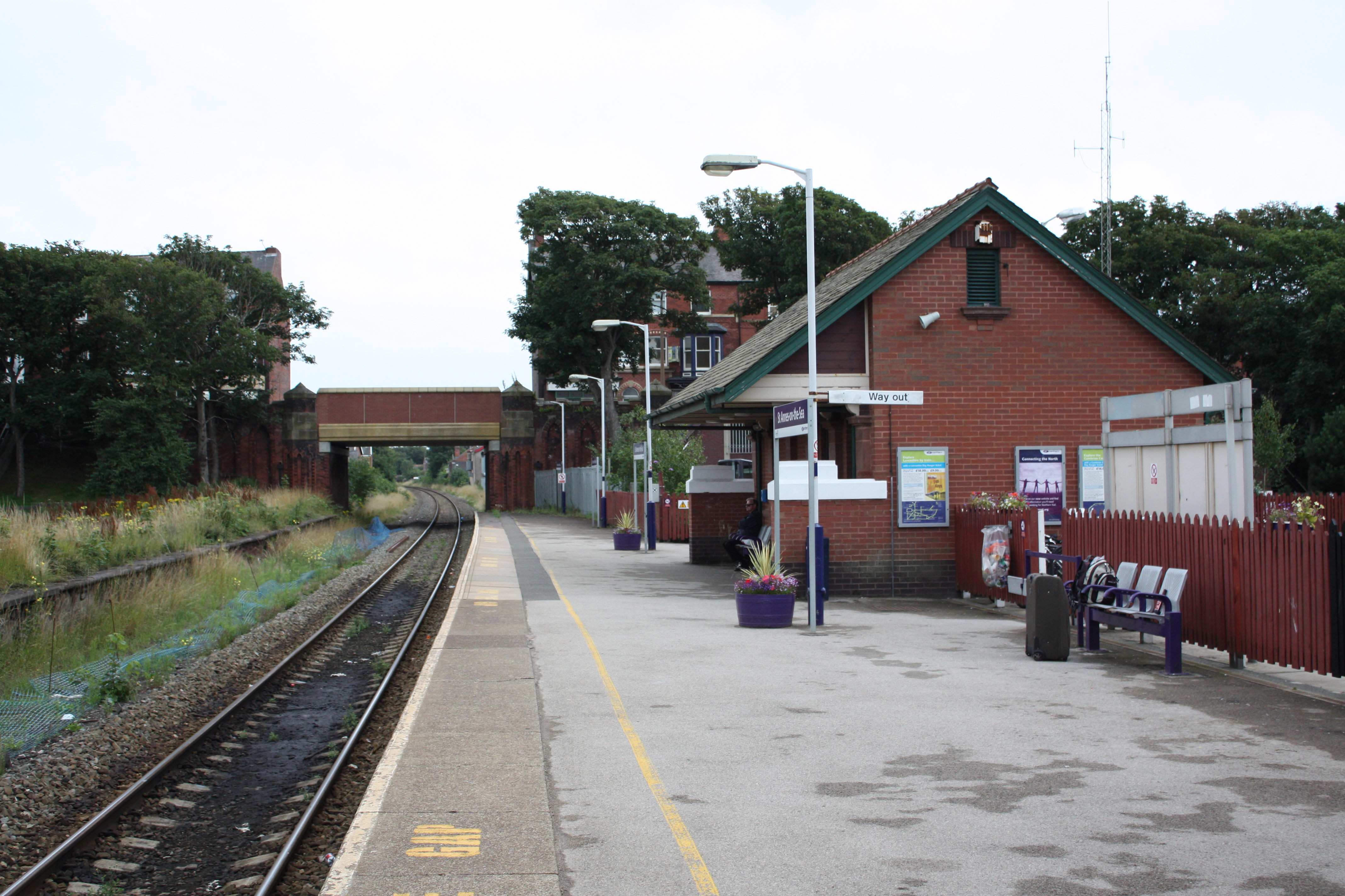 St Annes on the Sea railway station photographed in Preston direction